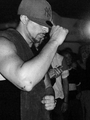 Mr. Wiggles, break dancer and member of both Rock Steady Crew and Electric Boogaloos. Source: Photo was shot by me, Justin Penner, for Enter the Inferno. Location: Calgary, Alberta, Canada. Date: July 22, 2005